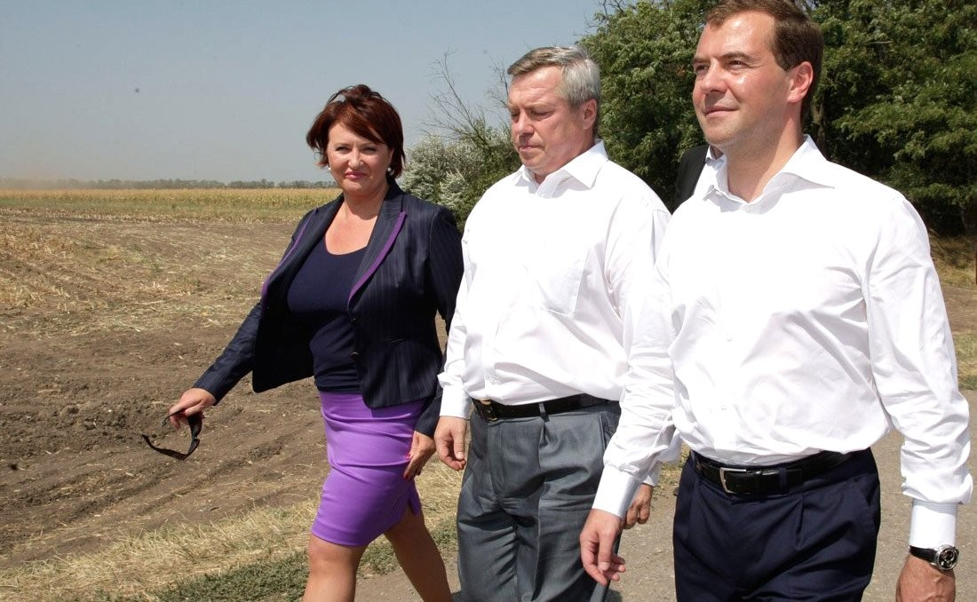 Left to right: Minister of Agriculture Elena Skrynnik, Vasily Y. Golubev, Governor of Rostov Region and Russian President Dmitry Anatolyevich Medvedev in the Rostov region.